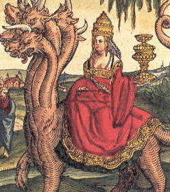 Whore of Babylon wearing tiara, mounting the 7-headed Beast of the Apocalypse. Originally a cropped detail from a woodcut in the Luther Bible (1534). Compare File:La ramera.jpg.